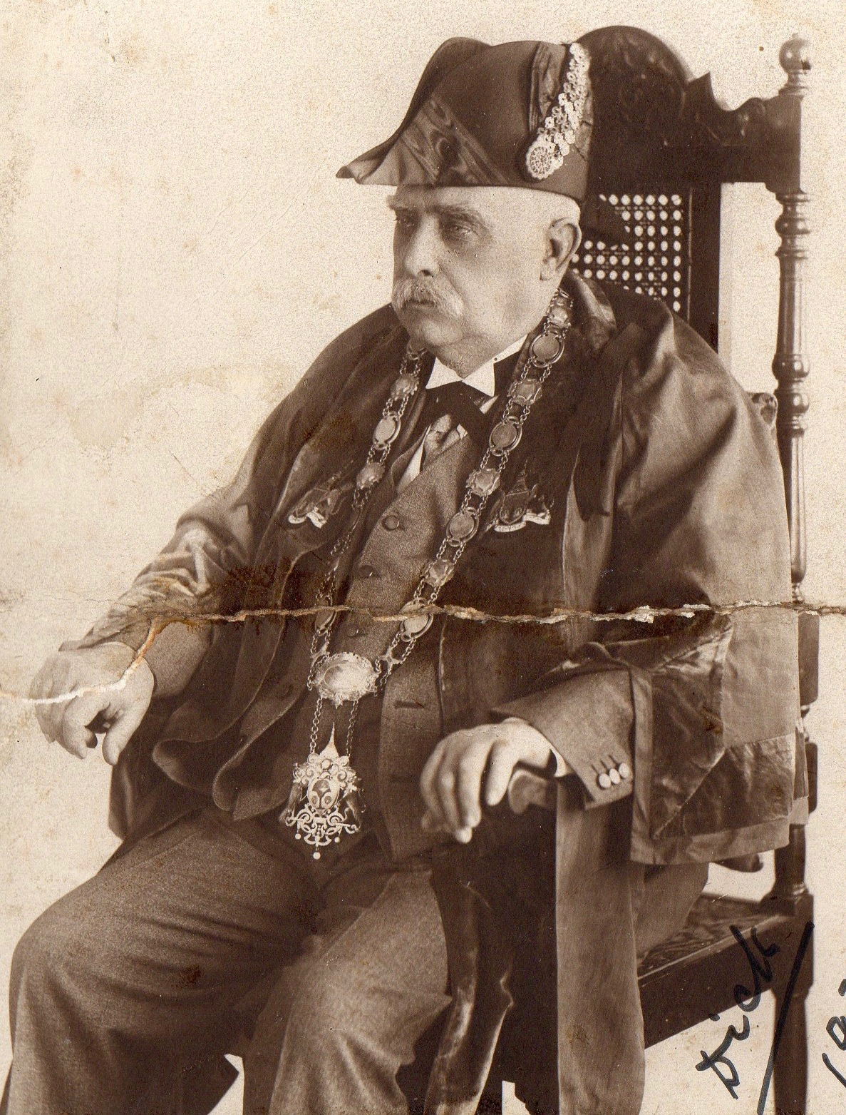 Former mayor of Rangoon Richard Rushall in full mayoral regalia